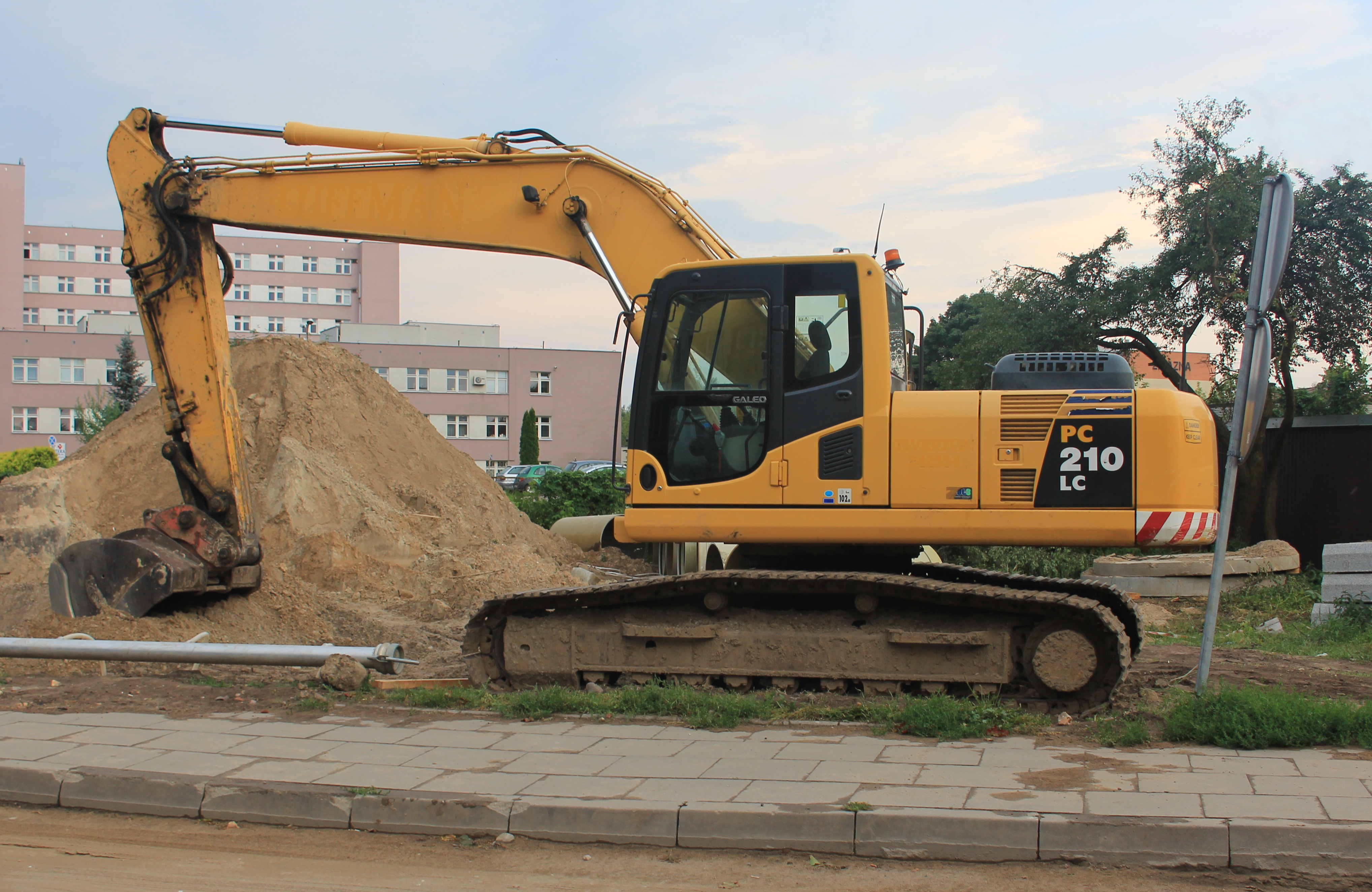 Excavator Komatsu PC210LC